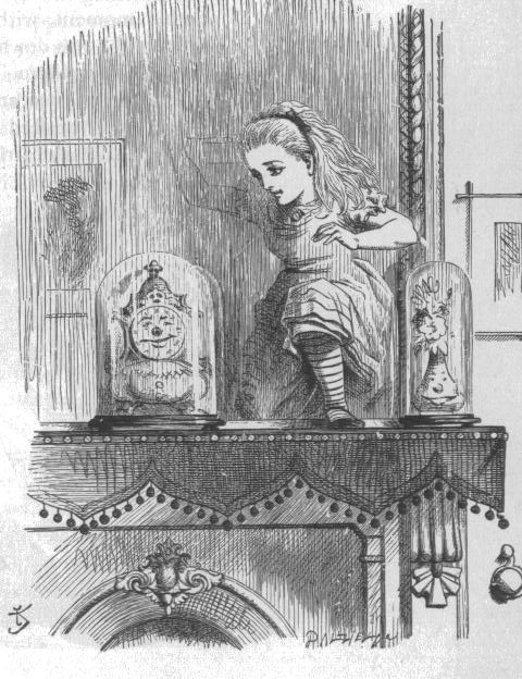 Looking glass room